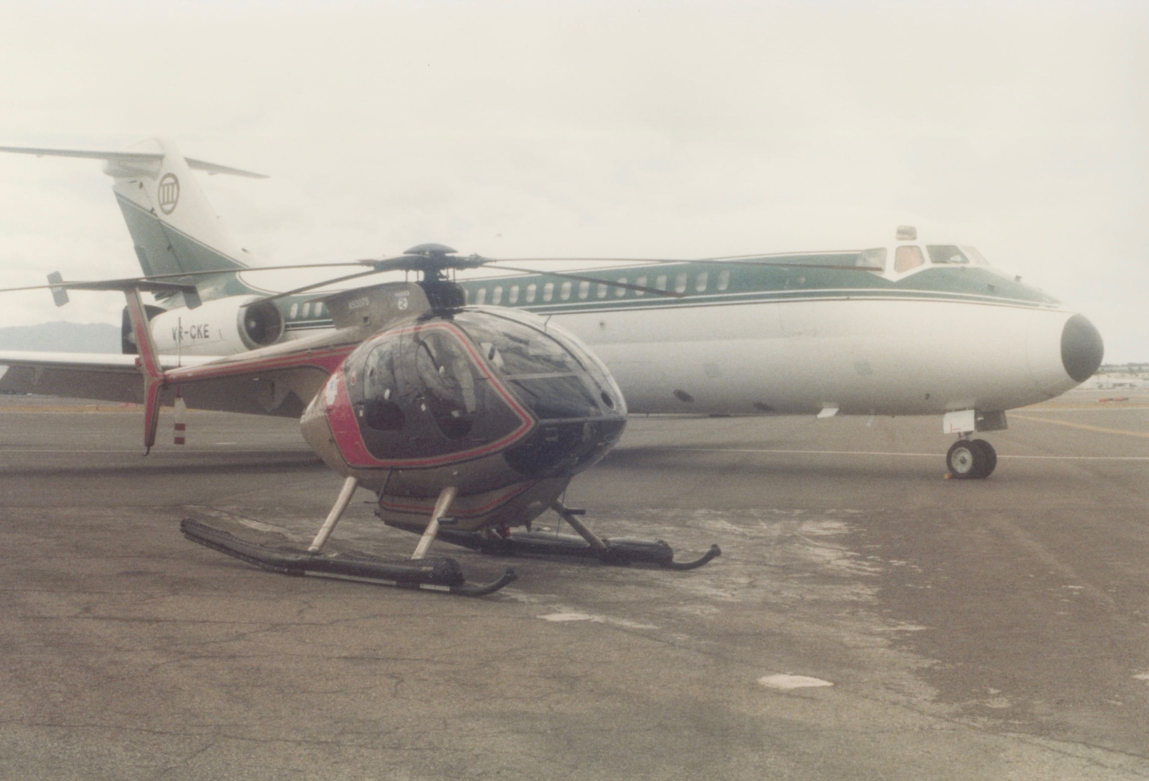 Adnan Khashoggi Private DC-9 and Helicopter